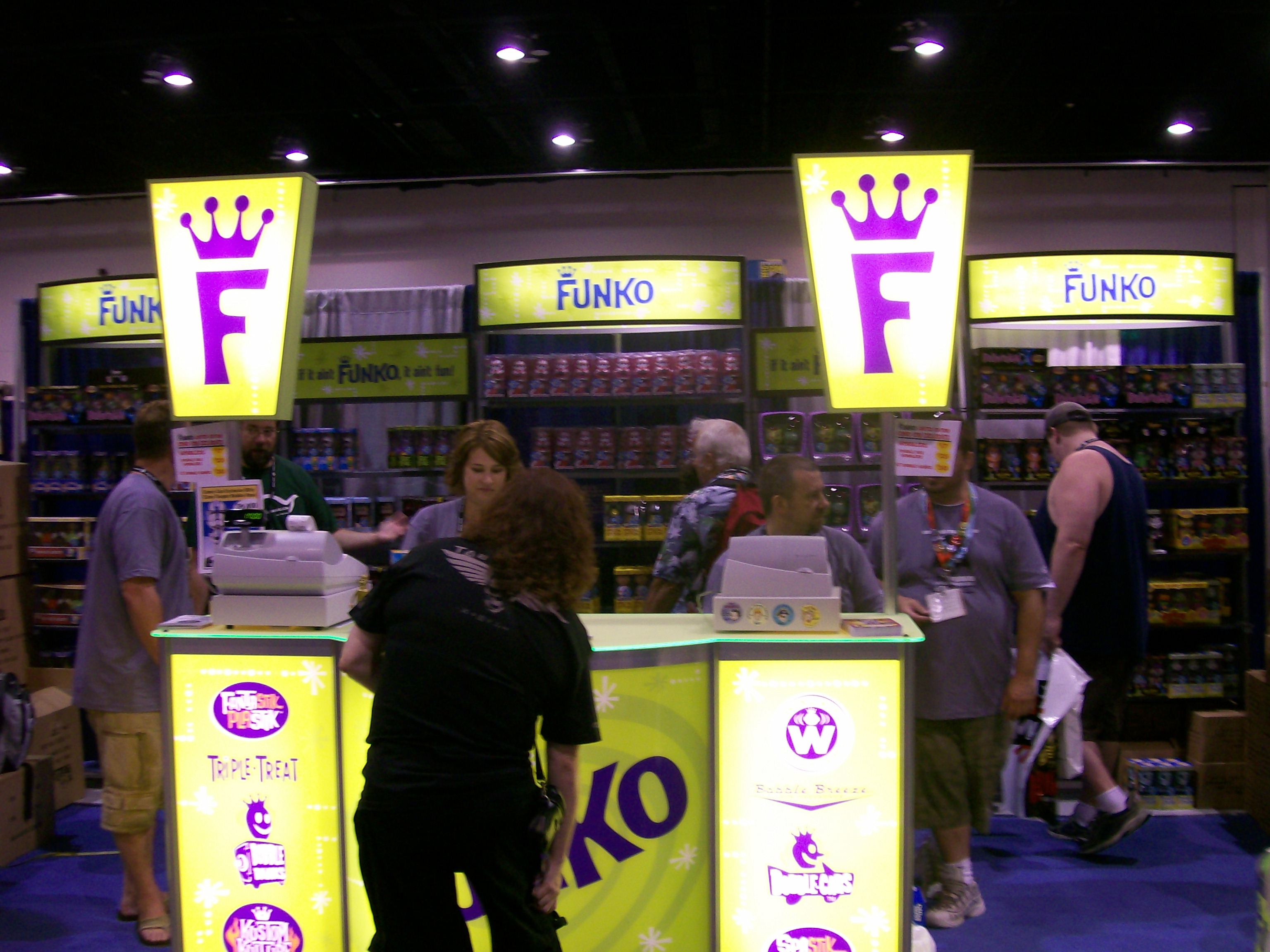 Funko at Comic Con 2007. Picture taken by me.